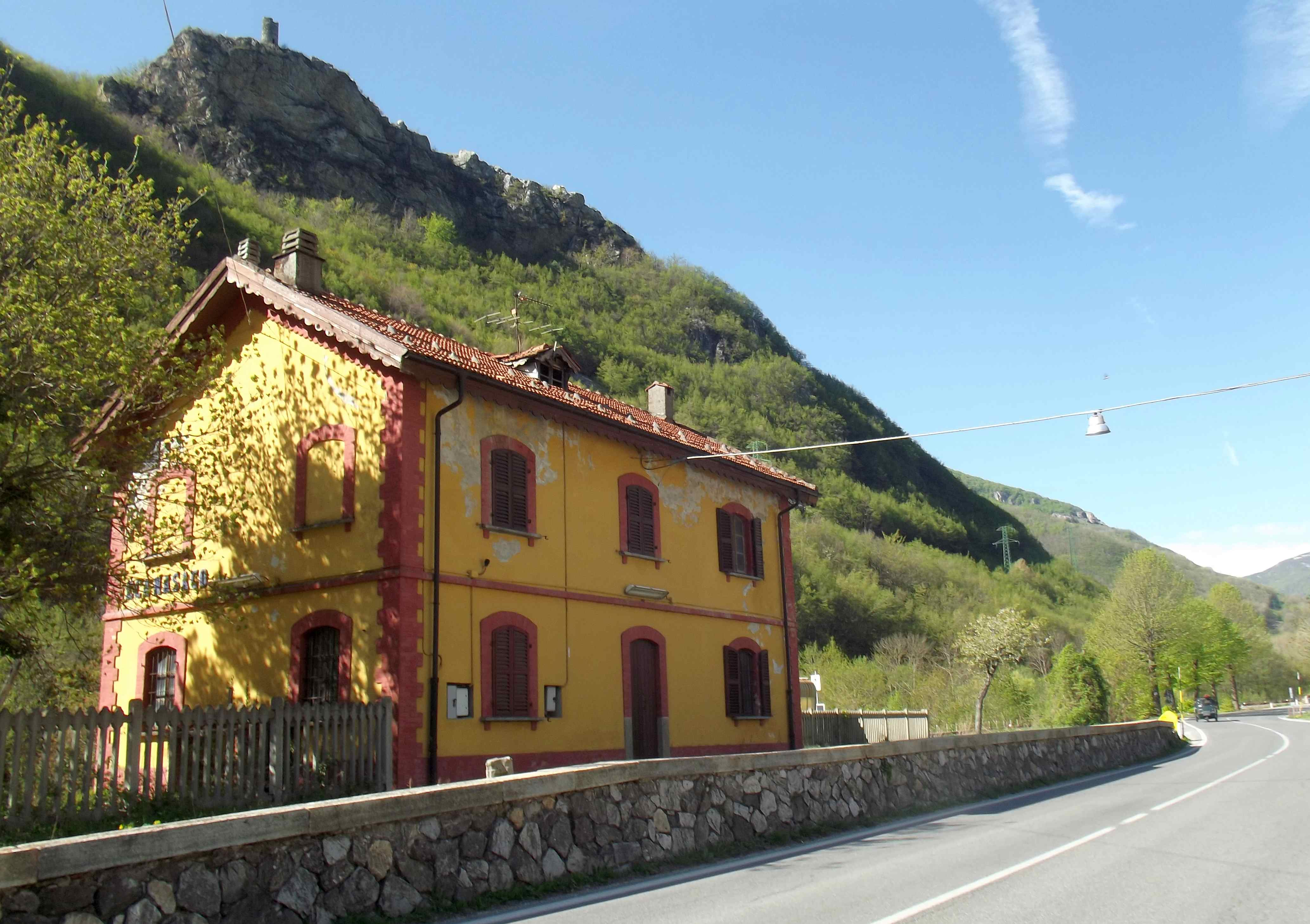 Eca-Nasagò train station and national road 28 (CN, Italy)